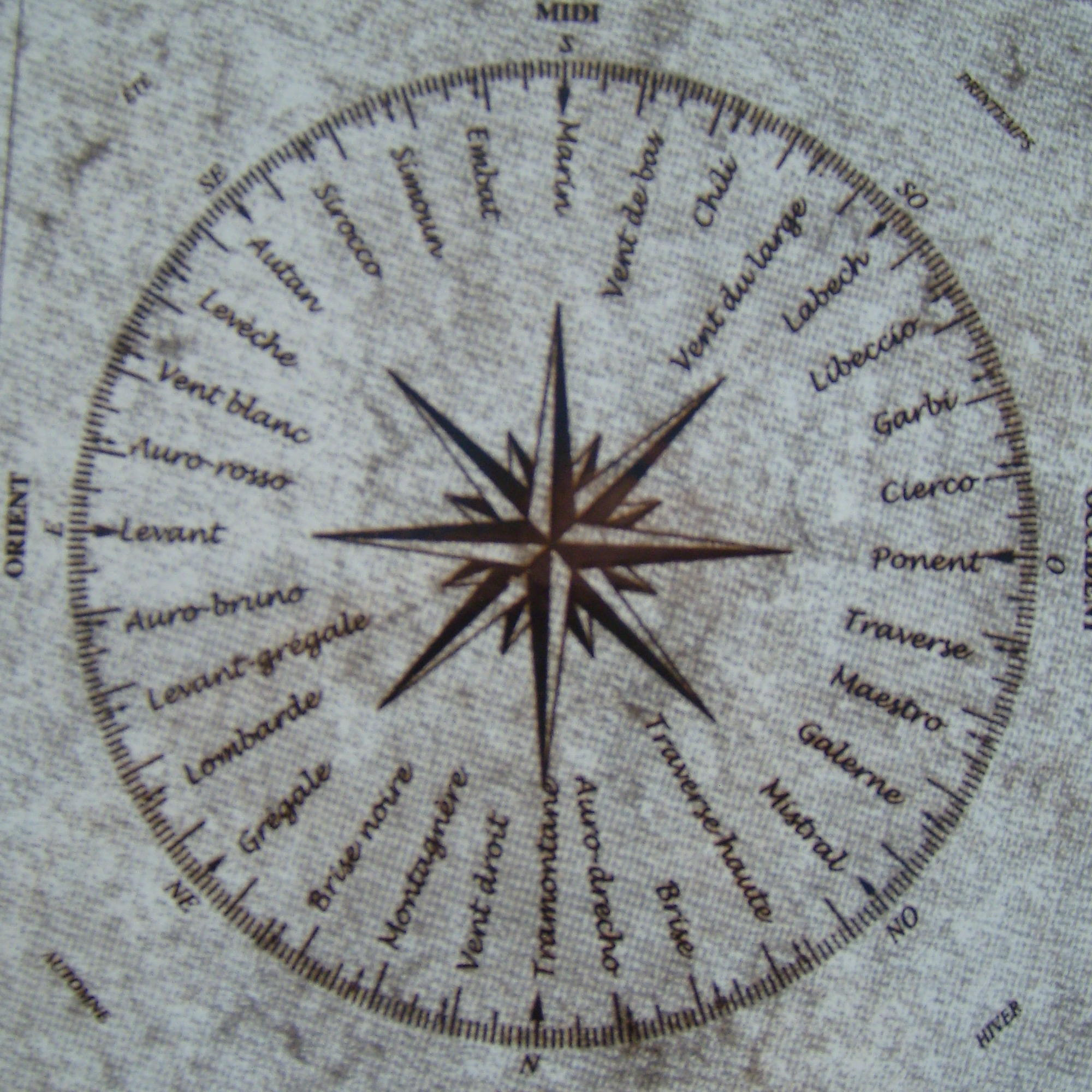 Photograph of a compass rose posted by the City of Toulon along the coastal trail beginning in Mourillon.